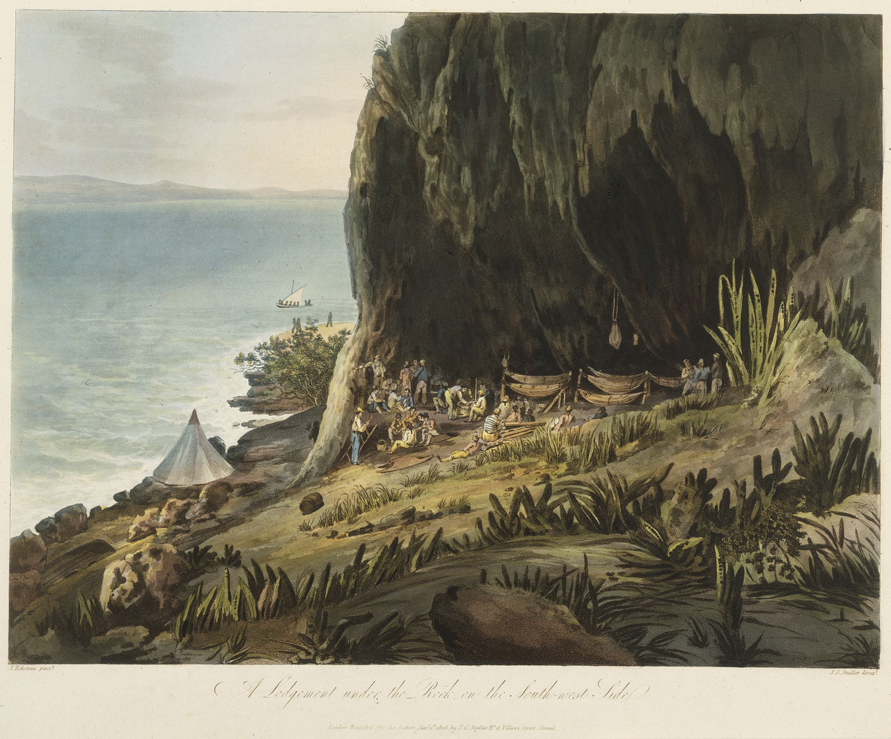 Picturesque Views of the Diamond Rock... A Lodgement under the Rock on the South-west Side PAH9545